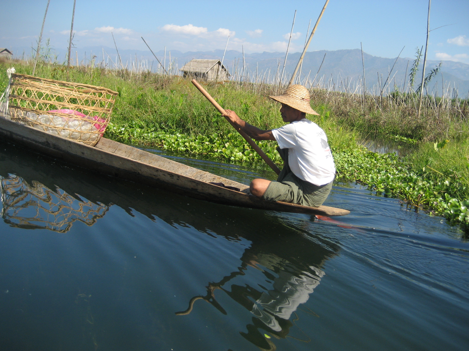 Beida (water hyacinth) at Inle Lake